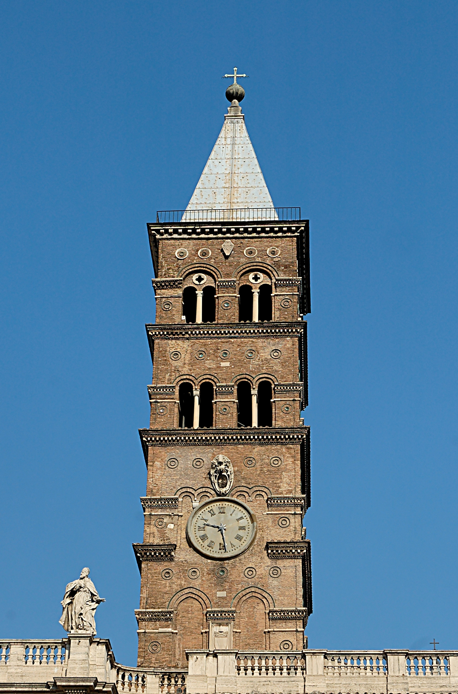 Bell tower (1377) of Basilica di Santa Maria Maggiore in Rome.